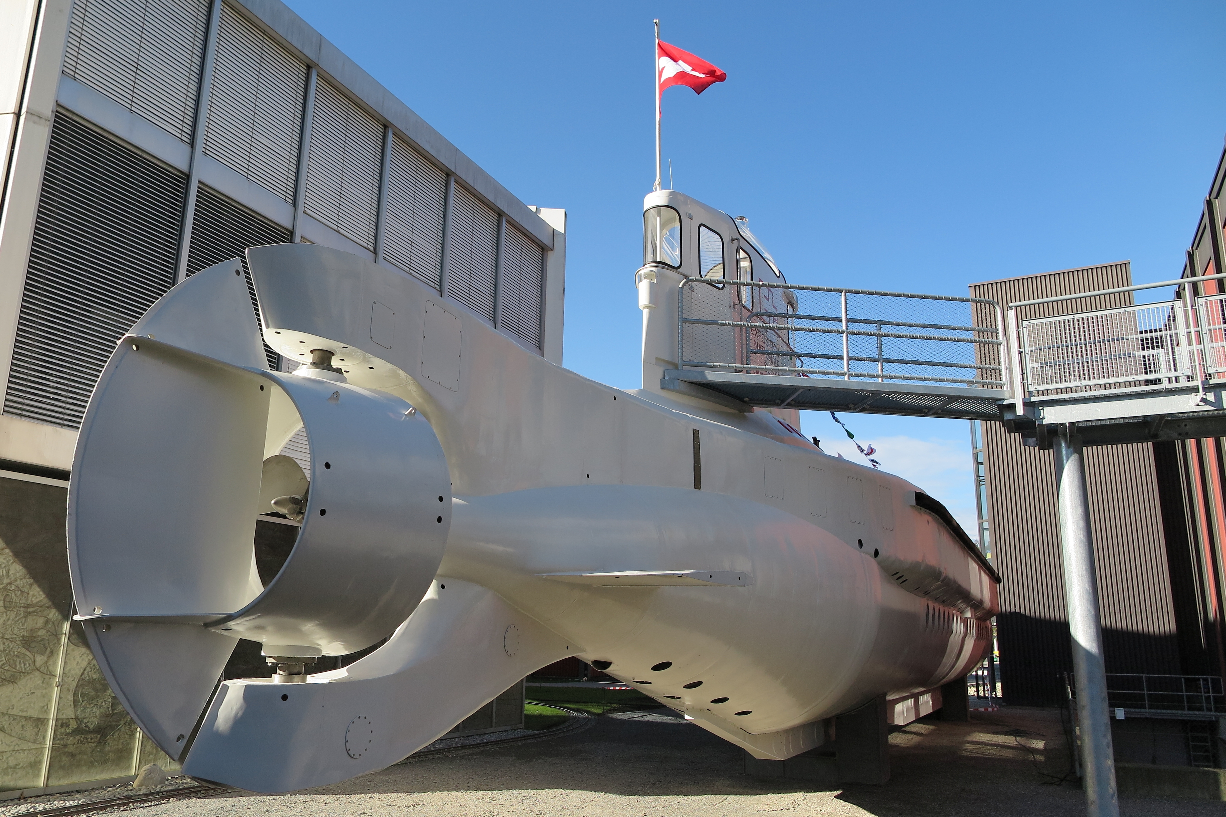 The submarine has a length of 28.5 m and originally a weight of 165 tons. The approved diving depth was 750 m before converting for research purposes. However, the calculated maximum diving depth was 1500 m. Battery and oxygen supply ranged for 48 hours of autonomous operation with 40 passengers. Swiss museum of transportation in Lucerne, Switzerland, Nov 3, 2014. (3/15)